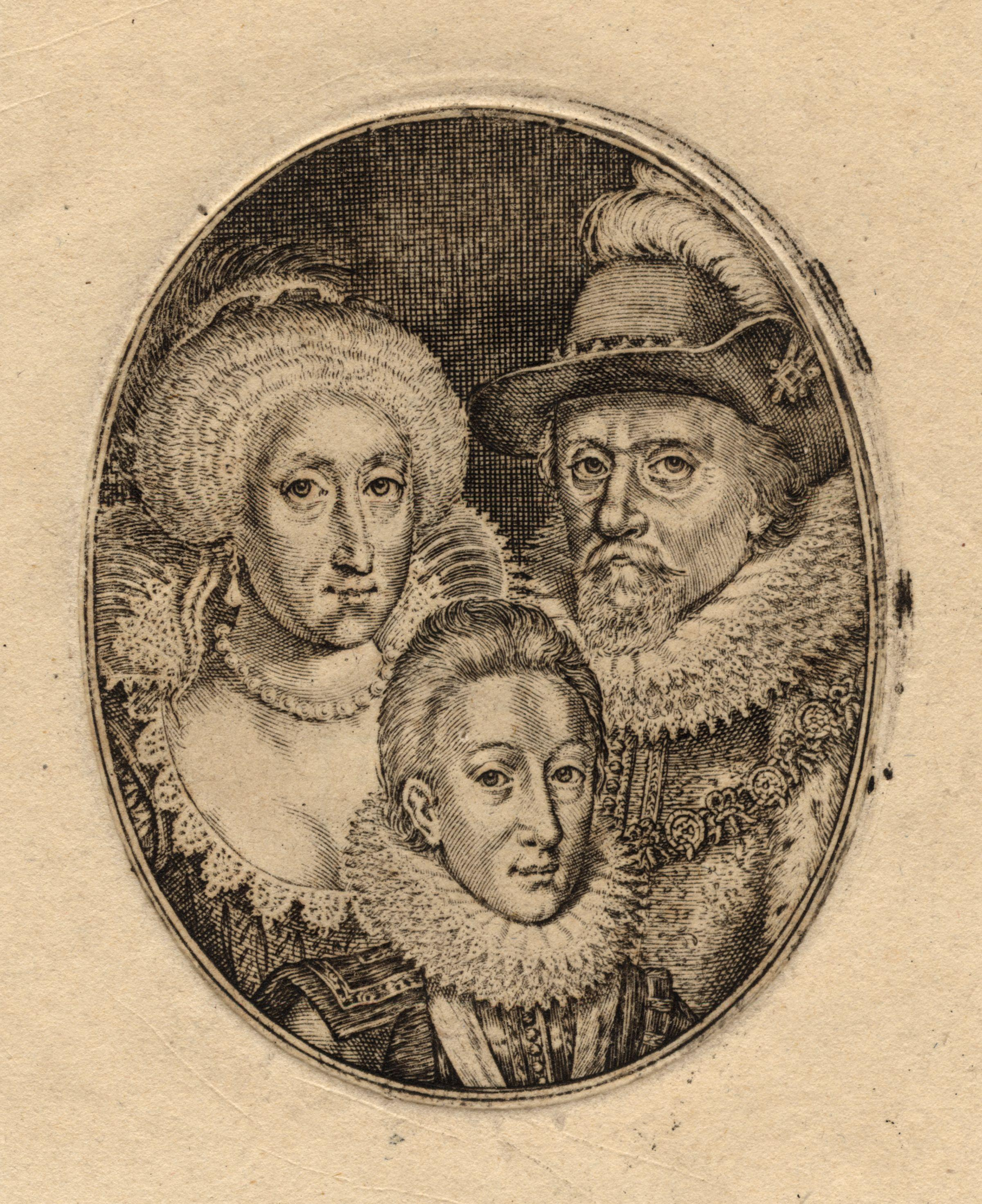 Anne of Denmark; King Charles I when Prince of Wales; King James I of England and VI of Scotland, by Simon De Passe (died 1647). All images in this batch have been confirmed as author died before 1939 according to the official death date listed by the NPG.